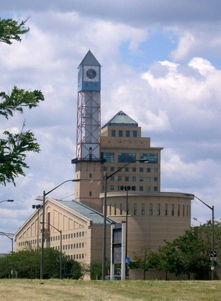 Mississauga City Hall Obtained from Polish Wikipedia at this page.